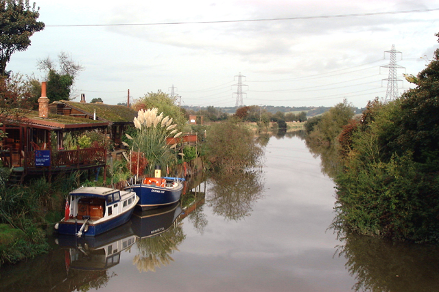 River Rother taken from Iden Lock. This is the bottom of the River Rother where it joins the Military Canal at Iden Lock on the Sussex/Kent border